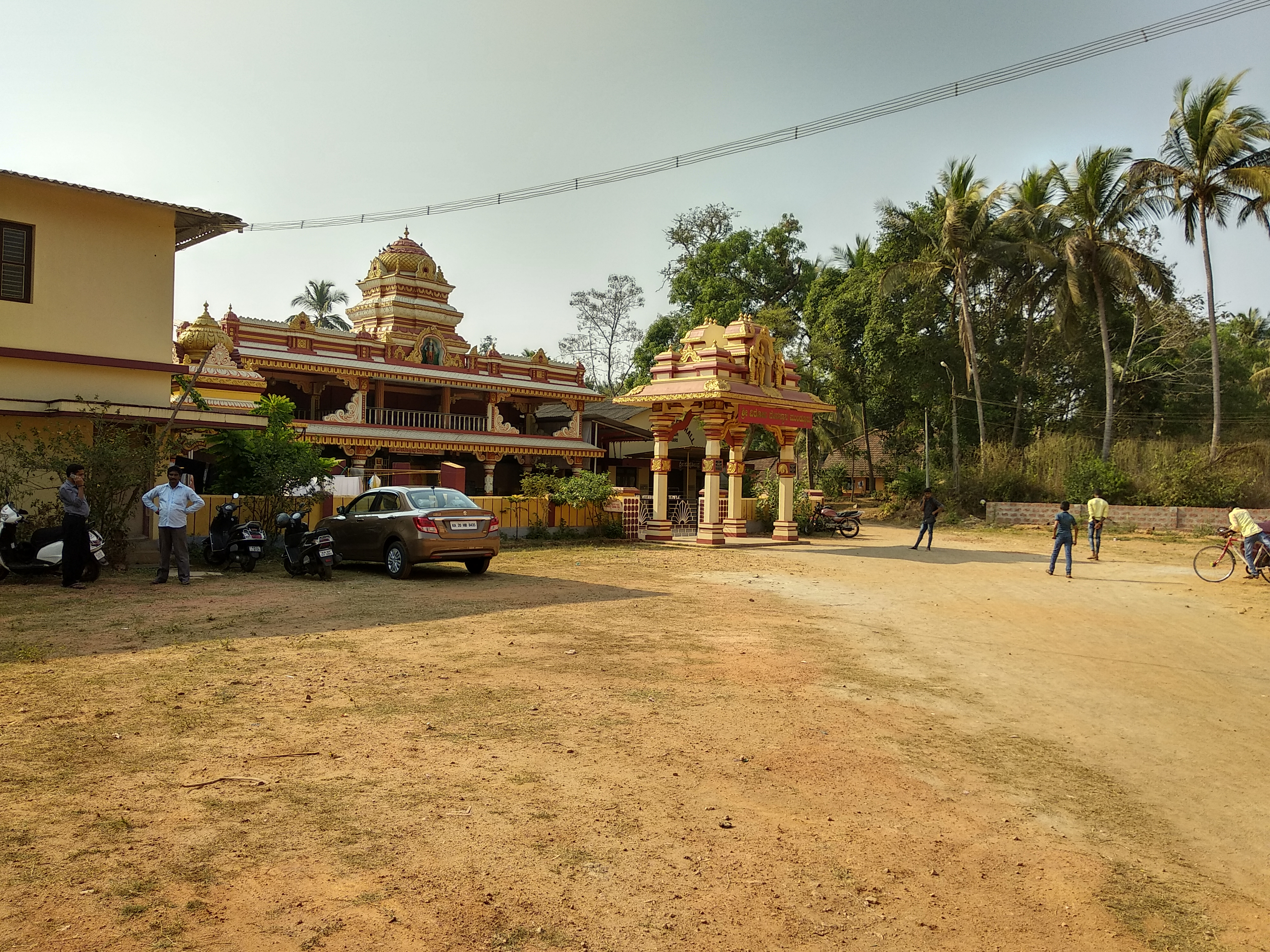 Mundkur Village, Karkal Taluk Udupi district, Karnataka India ಕನ್ನಡ: ಮುಂಡ್ಕೂರು ಗ್ರಾಮ, ಕಾರ್ಕಳ ತಾಲೂಕು ಉಡುಪಿ ಜಿಲ್ಲೆ, ಕರ್ನಾಟಕ